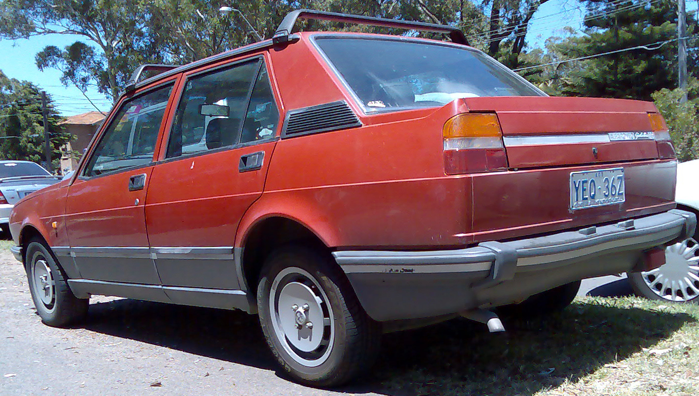 1980–1983 Alfa Romeo Giulietta 1.8 sedan. Photographed in Gymea, New South Wales, Australia.